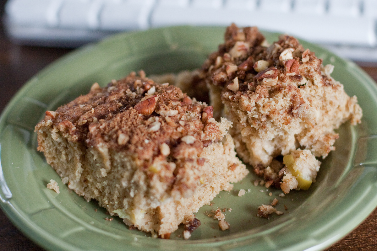 Coffee cakes are typically flavored with cinnamon, nuts, and fruits. These cakes sometimes have a crumbly or crumb topping called streusel and/or a light glaze drizzle. They do not typically include coffee as an ingredient, but are so-called because they are often served as an accompaniment to coffee.